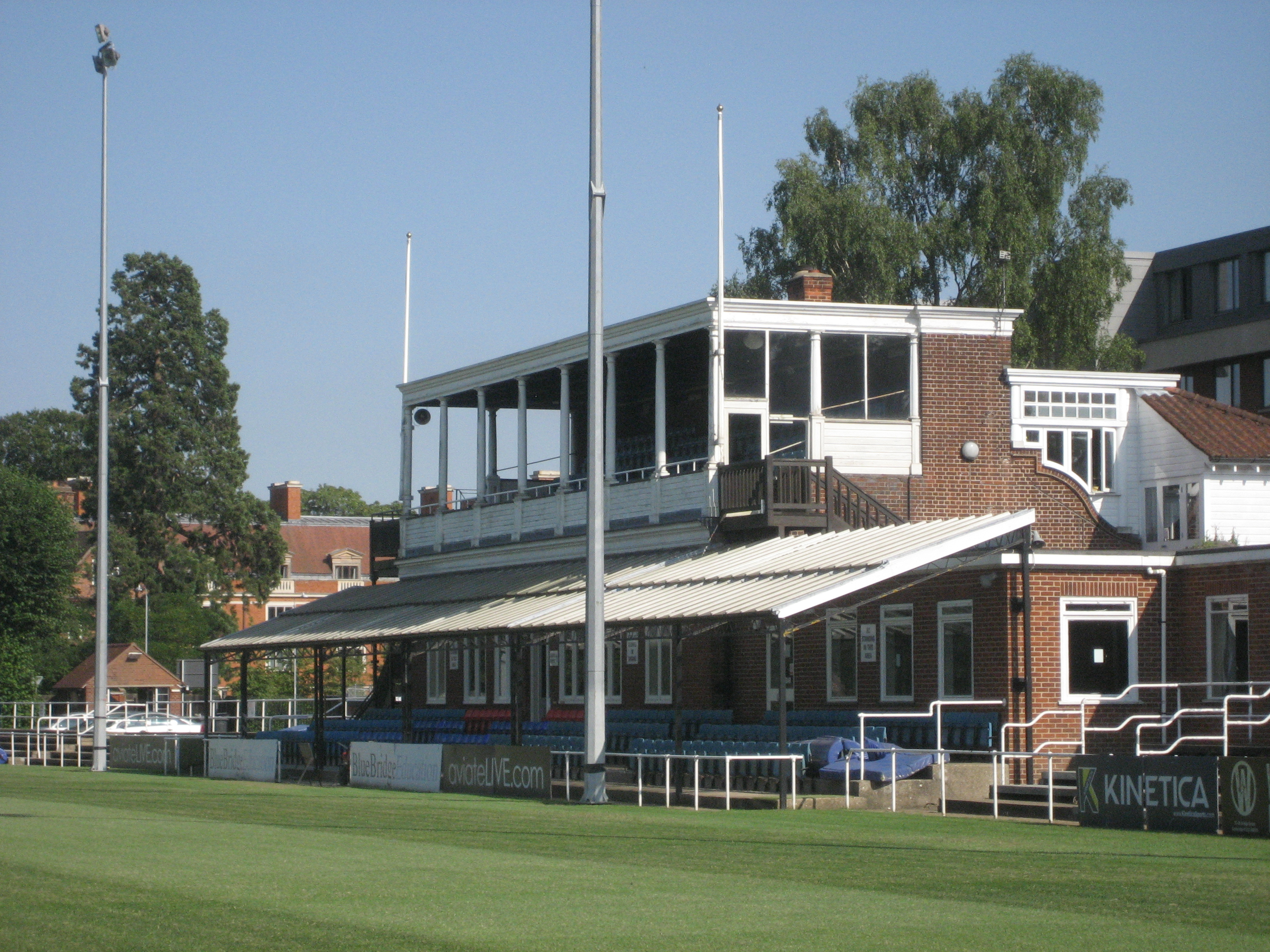 Cambridge University Rugby Union Football Club, Grange Road, Cambridge, England (UK)